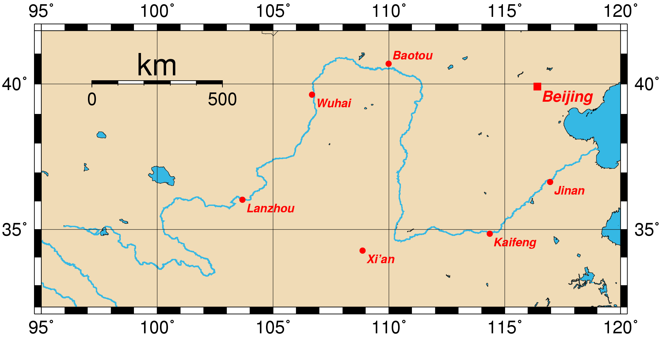 Map of the Huang He and the location of major cities along its course. This map was generated using the Generic Mapping Tools (GMT). The city coordinates (longitude, latitude) used are: 103.6833 36.0500 Lanzhou 106.6833 39.6500 Wuhai 109.9833 40.6666 Baotou 114.3500 34.8500 Kaifeng 116.9600 36.6666 Jinan 108.8666 34.2500 Xi'an 116.4166 39.9166 Beijing